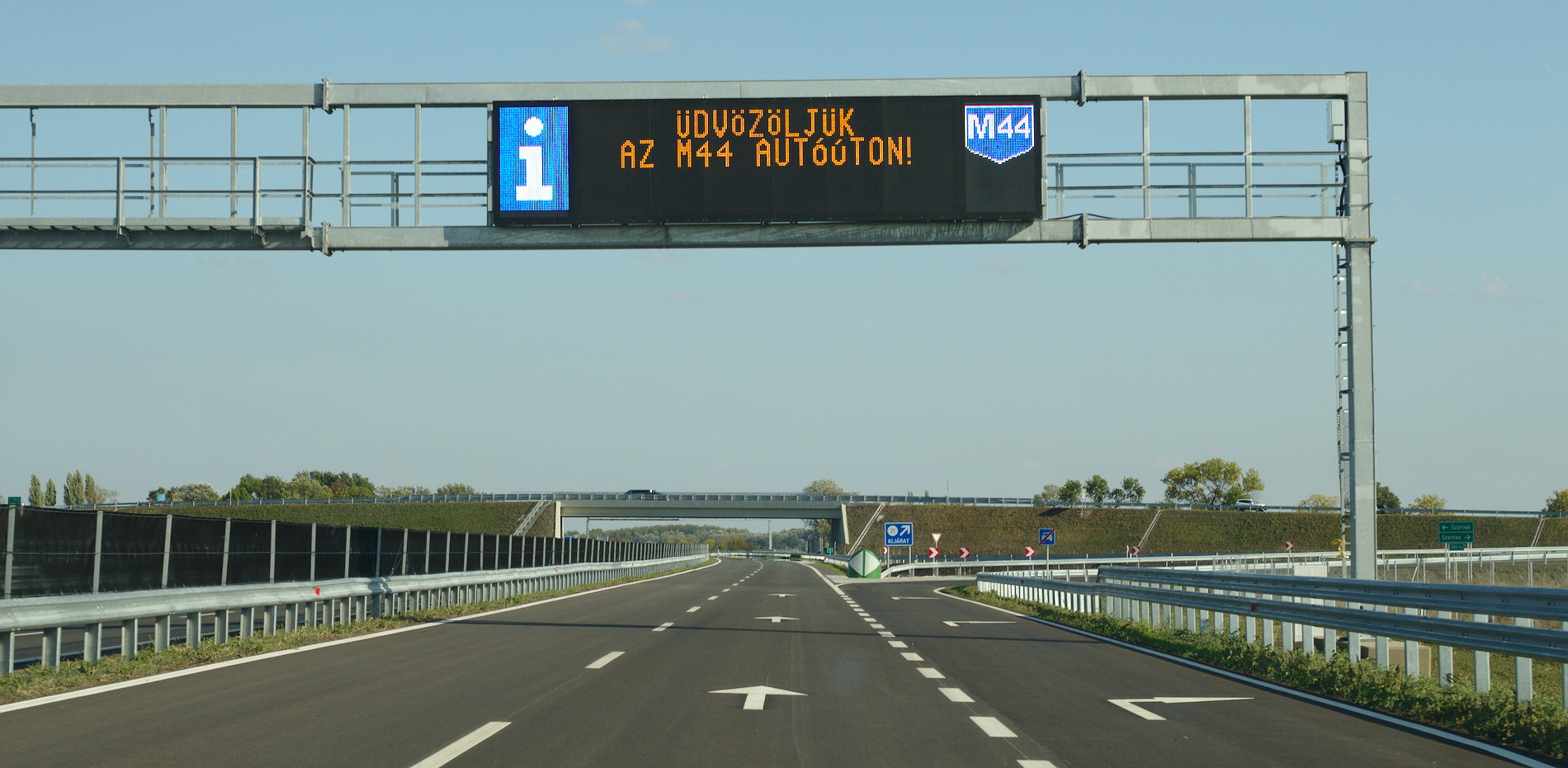 Motorway M44 in Hungary